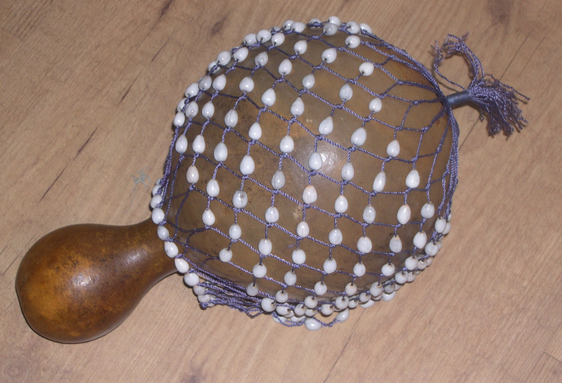 Shekere - African percussion instrument